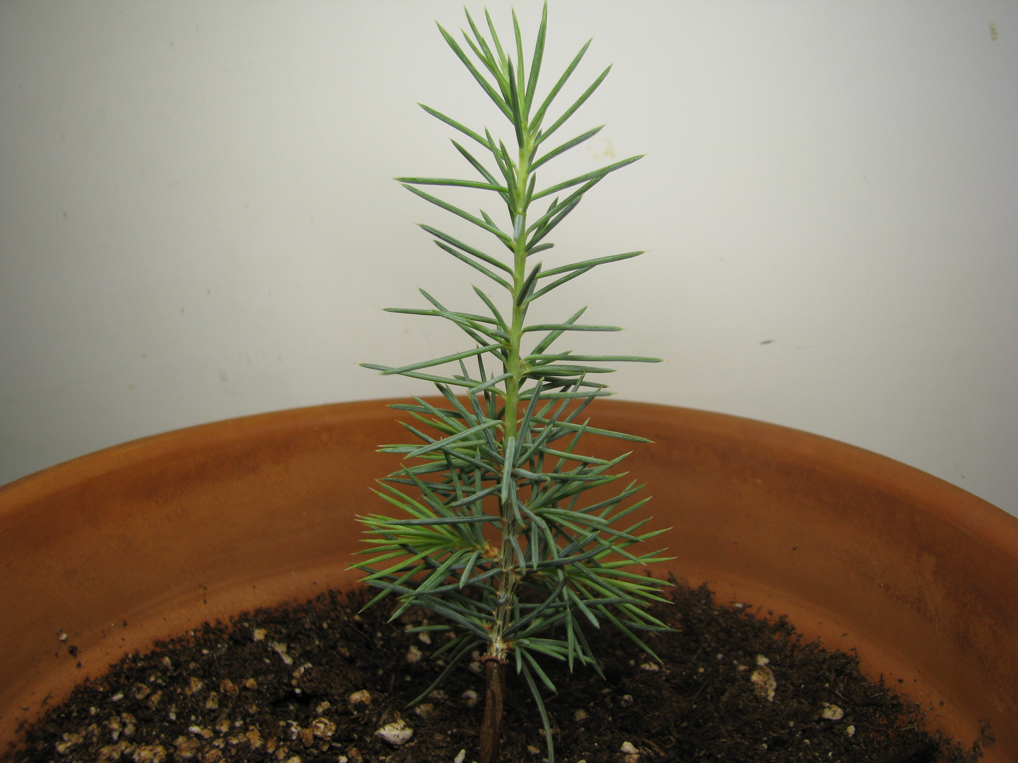 A picture showing a young Cedrus Libani, about 8 months old.